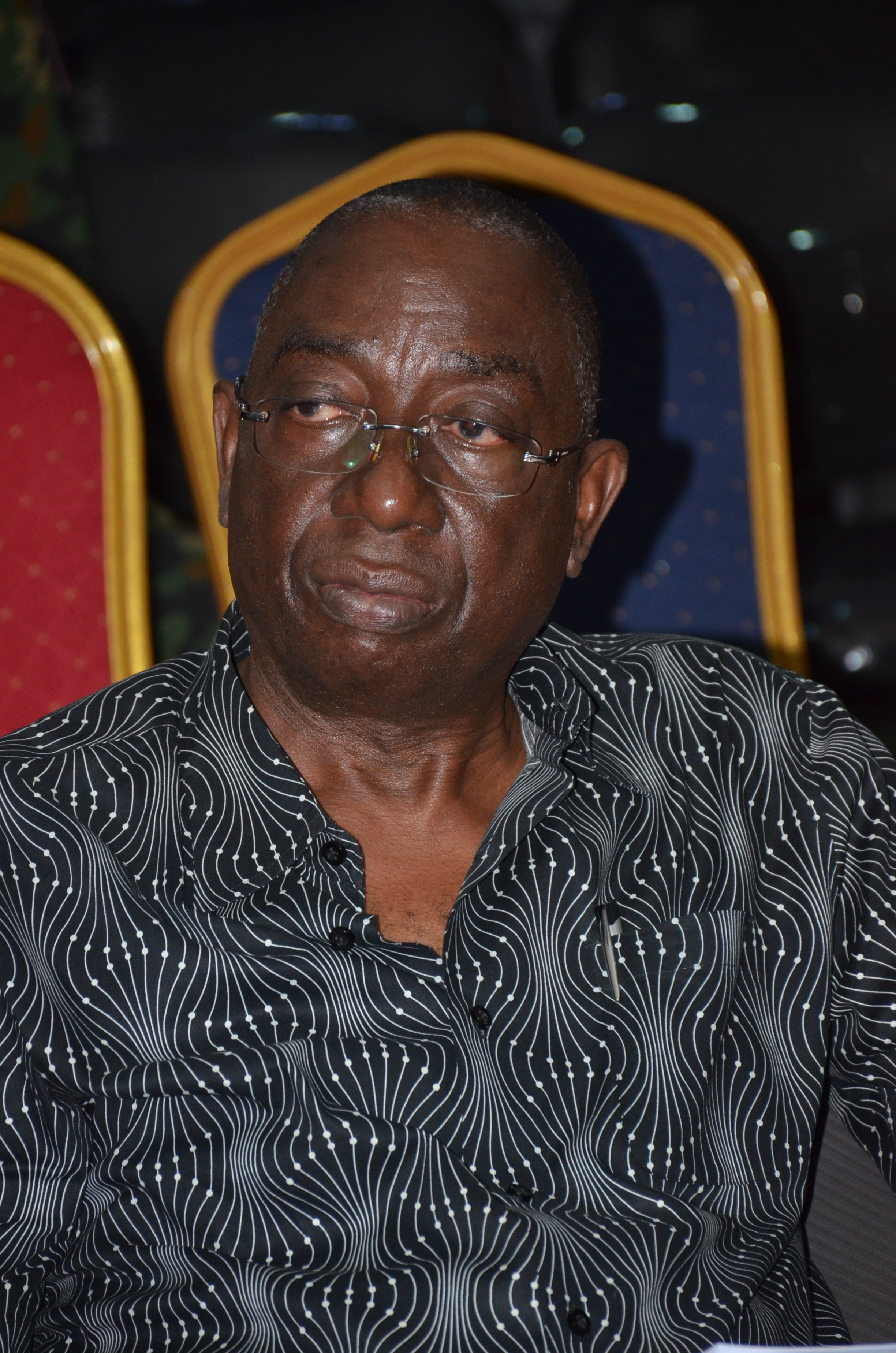 Lt. Gen. Isaac Chikadibia Obiakor (rtd) at the Investiture Ceremony for Patrons of the Nigerian Military School Zaria Ex-Boys Association (FCT Chapter) on September 9, 2017. Obiakor was one of four alumni decorated during the event.